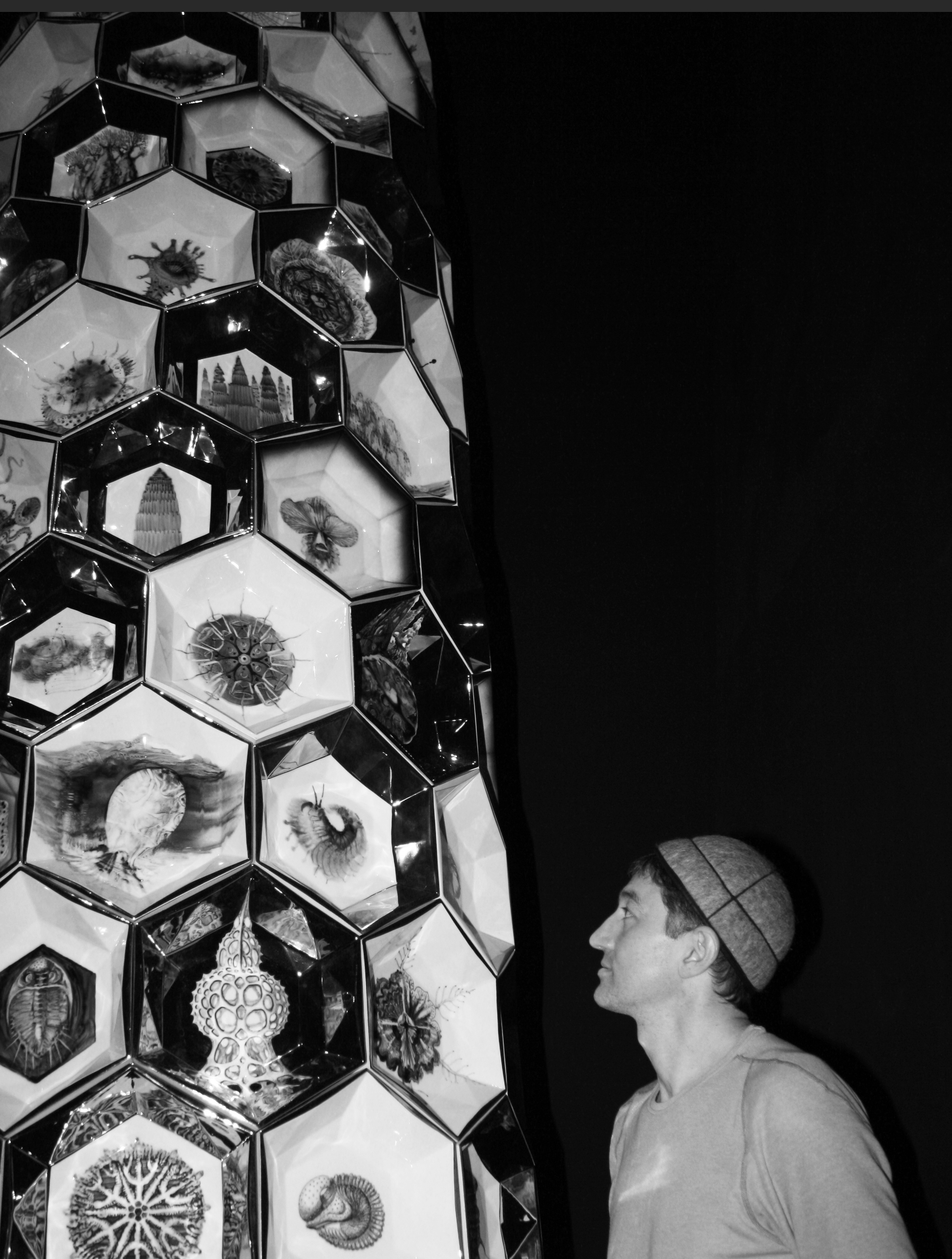 Alim Pasht-Han and porcelain sculpture ARURA